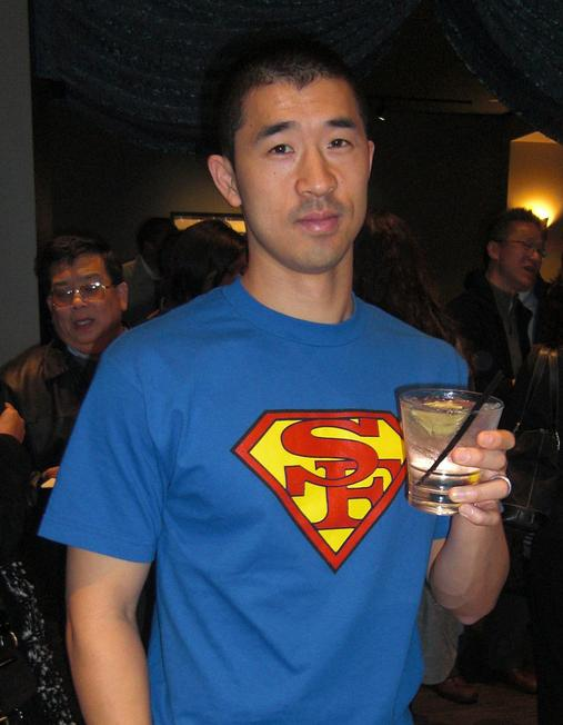 Screenwriter Alex Tse at San Francisco International Asian American Film Festival in 2009